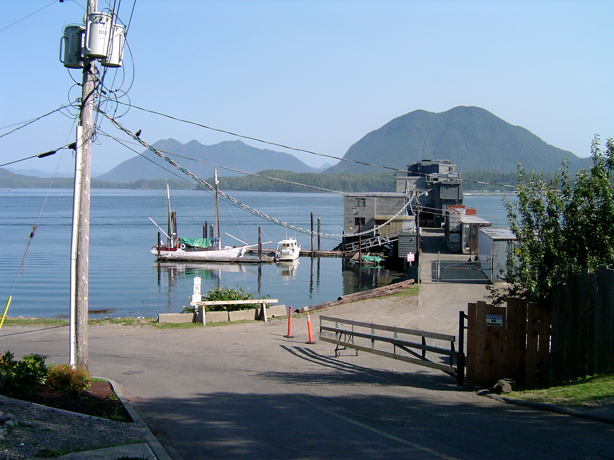 Fishing wharf at Tofino, British Columbia. Photo taken in the summer of 2004. Source: Photo by me, User:Balcer.